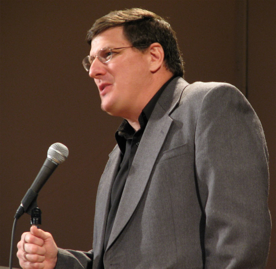 Scott Ritter, SUNY New Paltz, 03/16/2006, Studley Theatre. Photo by SUNY New Paltz student Justin Holmes, WikiPedia user name RadicalHarmony. See WikiPaltz:Justin Holmes.